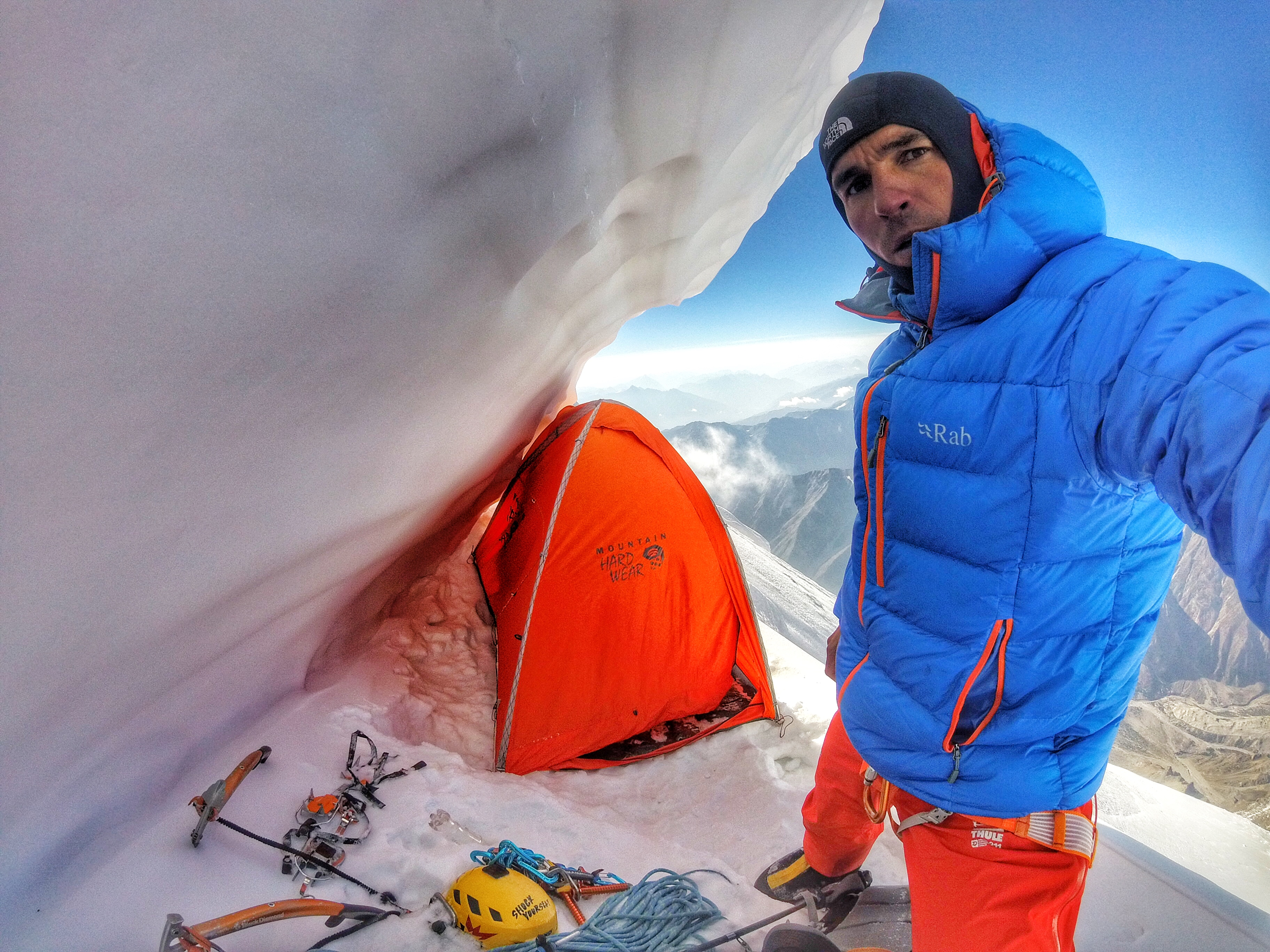 DCIM\100GOPRO\G0100149.JPG